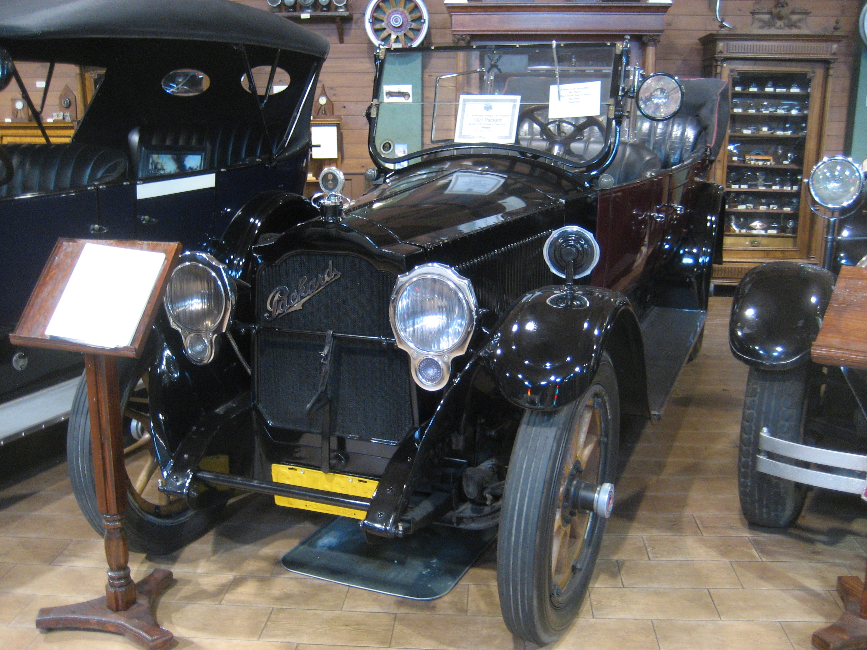 1921 Packard 3-35 Seven passenger Twin-Six Touring car. On display at Fort Lauderdale Antique Car Museum.